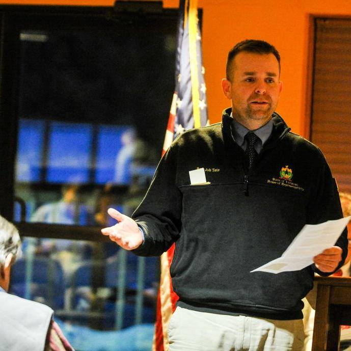 Rep. Job Tate (R-Mendon)